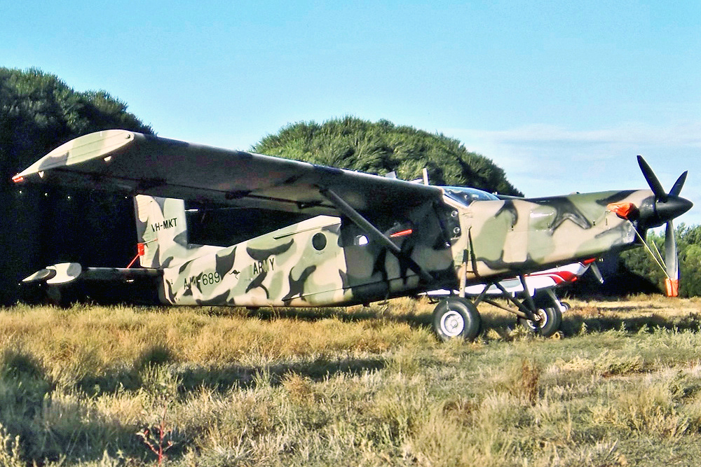 Ex-Australian Army Pilatus PC-6 Turbo Porter in Virginia, South Australia